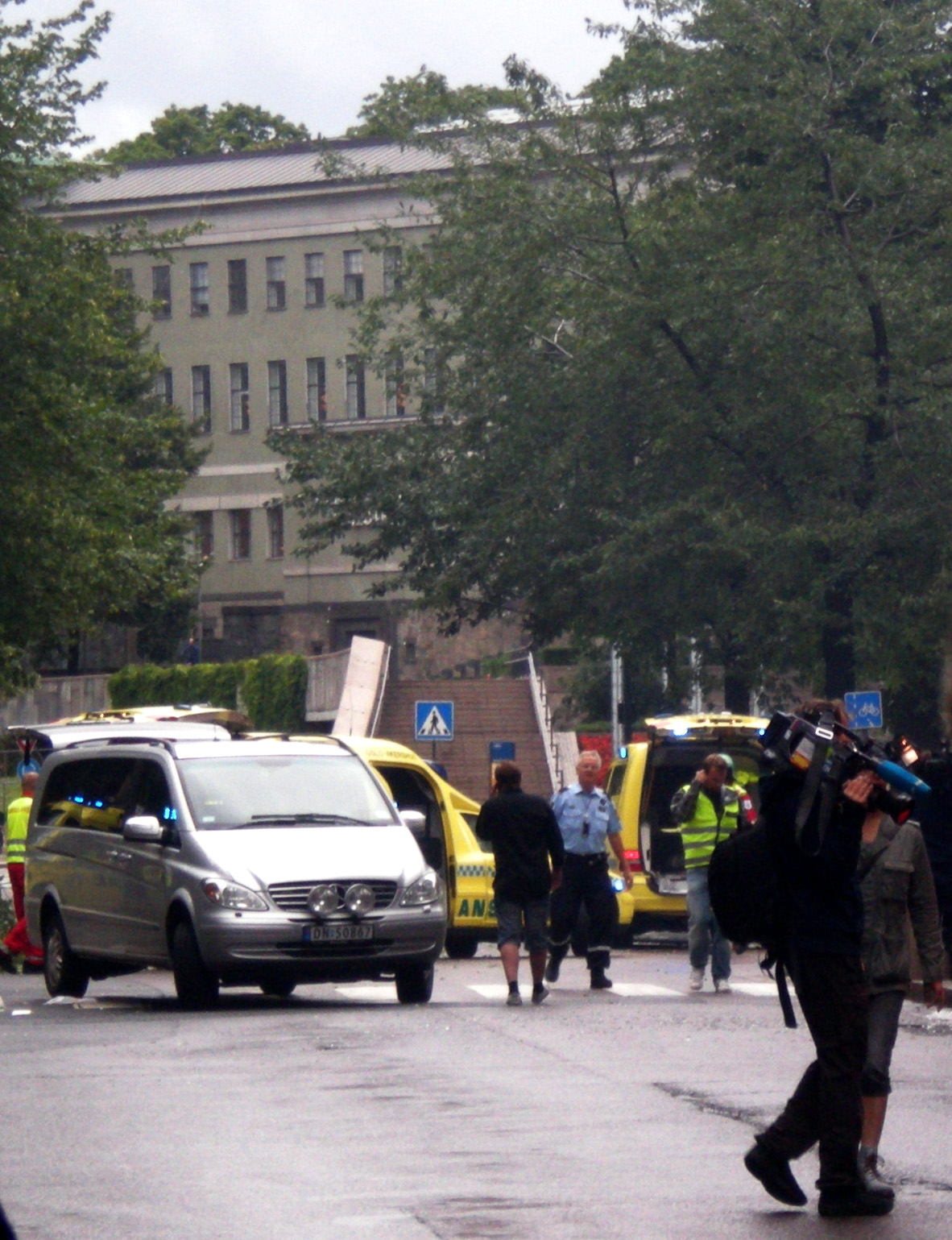 Police and rescue personnell near Oslo's government buildings after the bomb blast 22 July 2011.